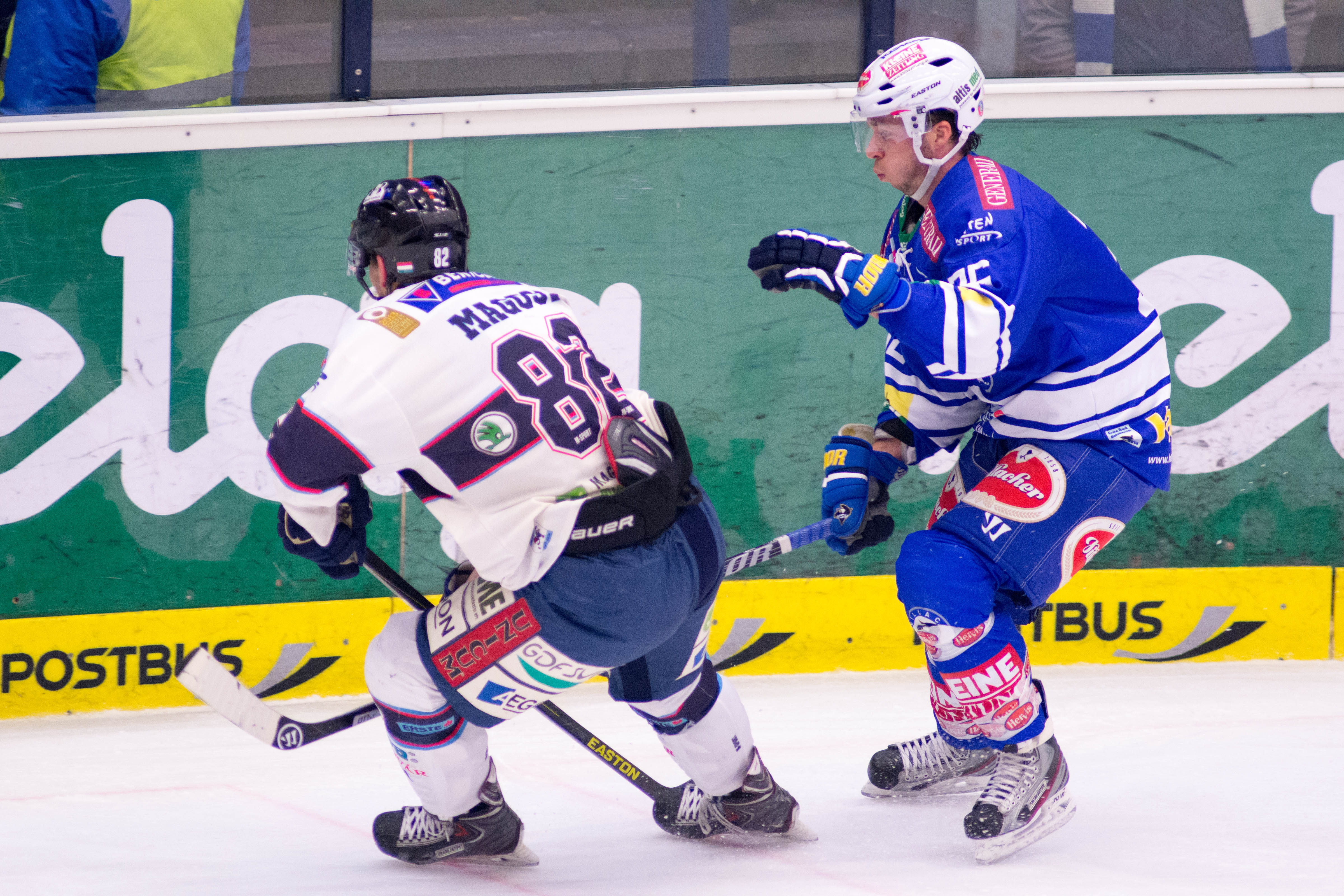 17.12.2013,Stadthalle Villach, AUT, EBEL, 54. Runde, EC VSV vs. SAPA Fehervar AV19, im Bild // frostworx Pictures © 2013, PhotoCredit: frostworx / Alex Micheu